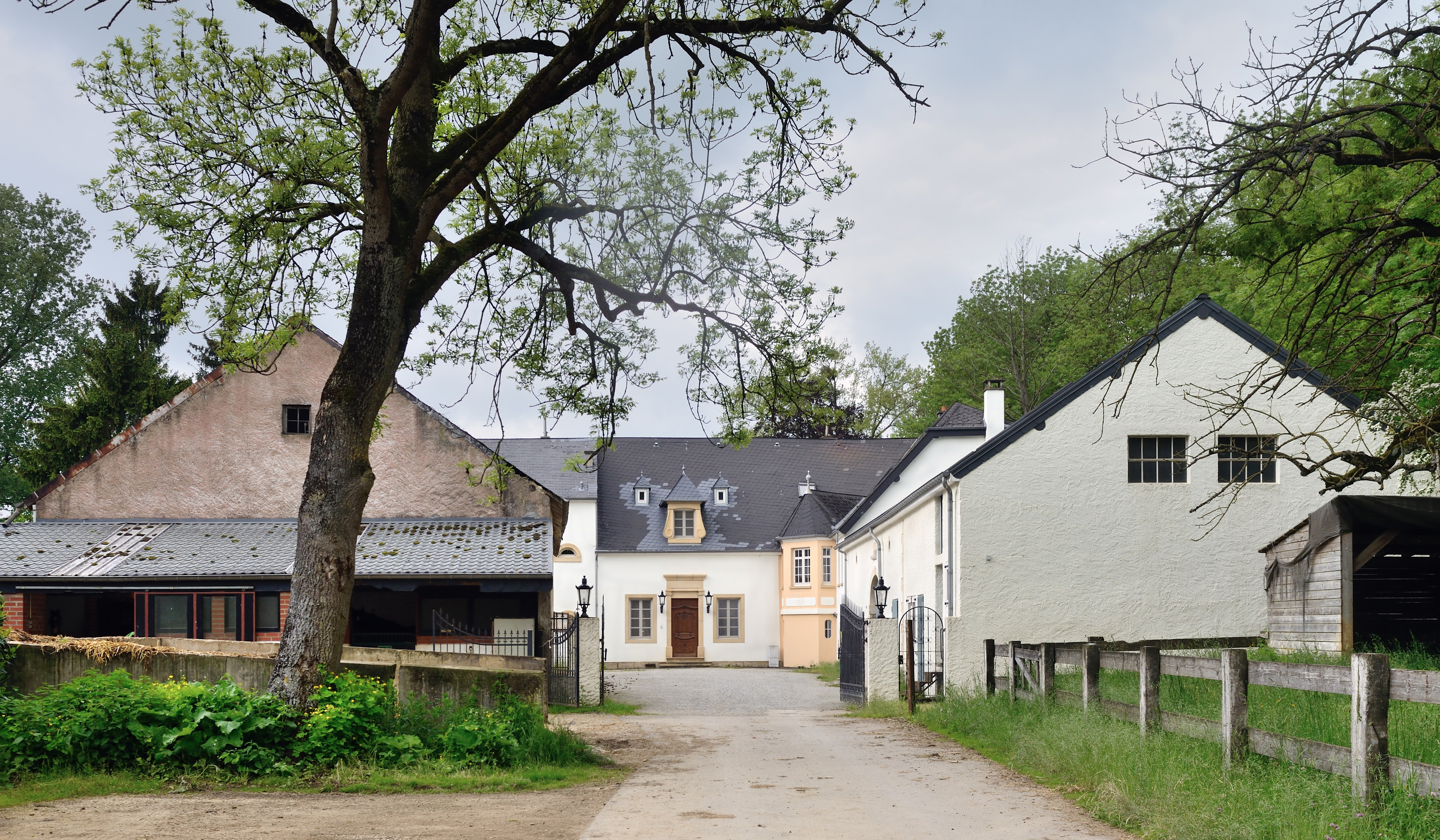 The so-called 'Lameschmillen' in the commune of Mondercange, Luxembourg.